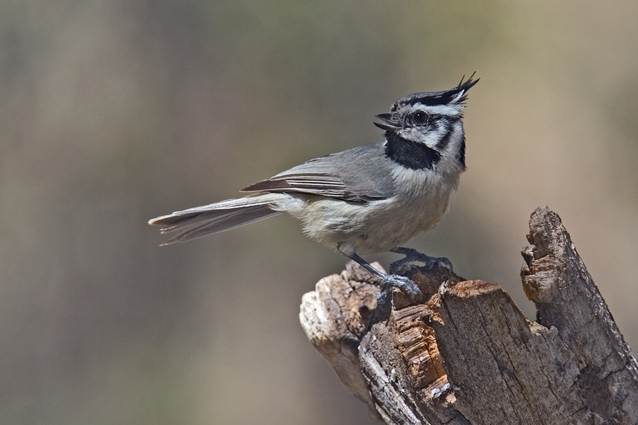 Bridled Titmouse at Madera Canyon, Arizona